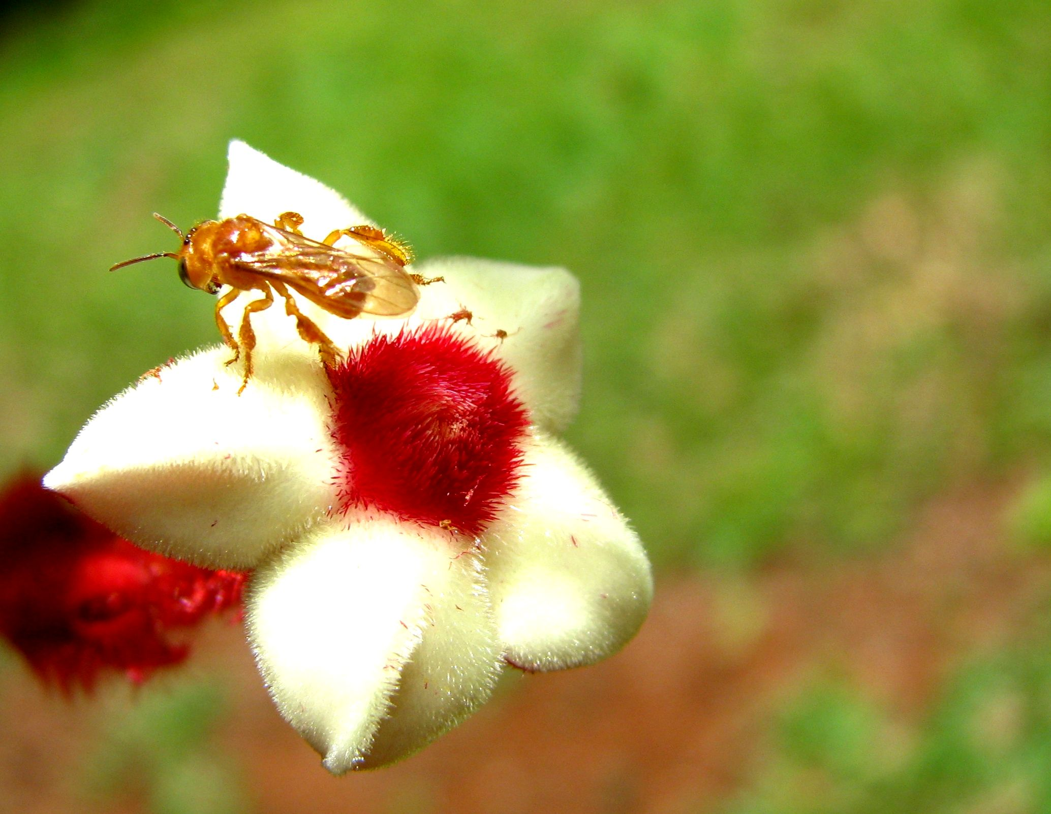 Unidentified insect on Mussaenda flower